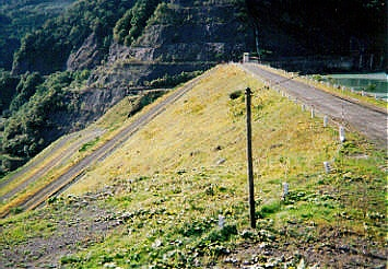 Nikappu Dam(Nikappugawa River/Hokkaido/Japan)